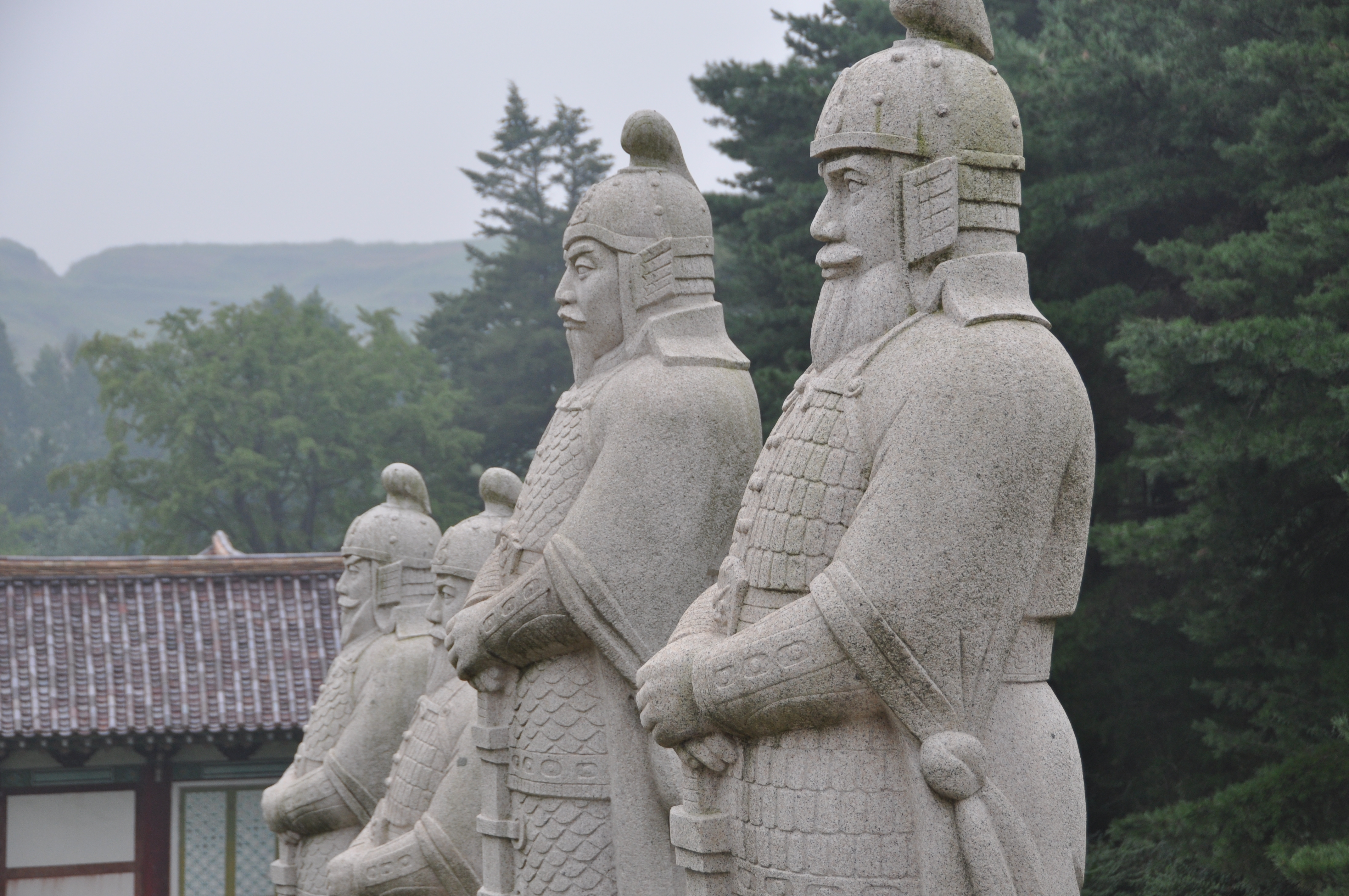 Statues at the Tomb of King Wanggon